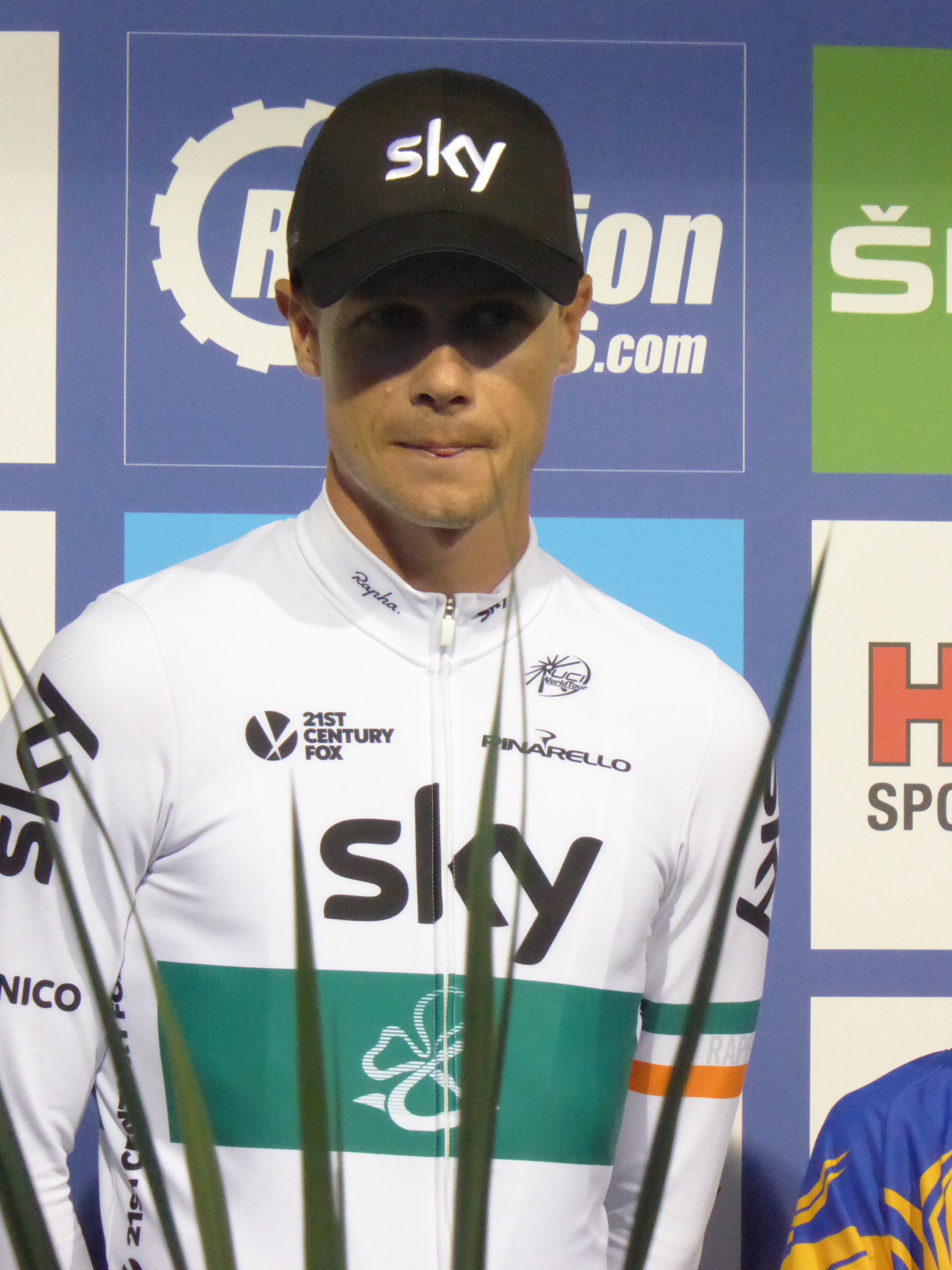 Nicolas Roche (Team Sky), pictured in the Irish national champion's jersey, at the 2016 Tour of Britain team presentation in Glasgow on 3 September 2016.